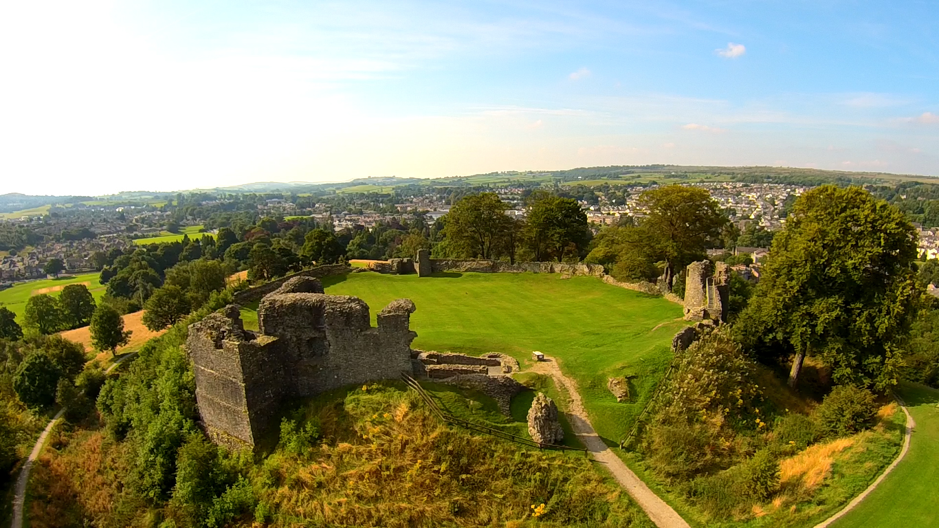 Aerial view of Kendal Castle looking south. The town of Kendal is visible behind.